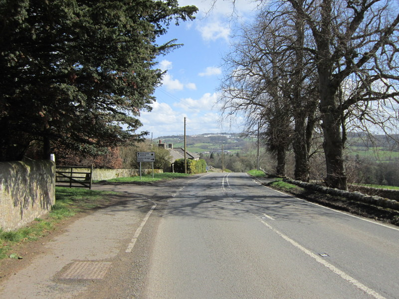 Heading east out of Walwick